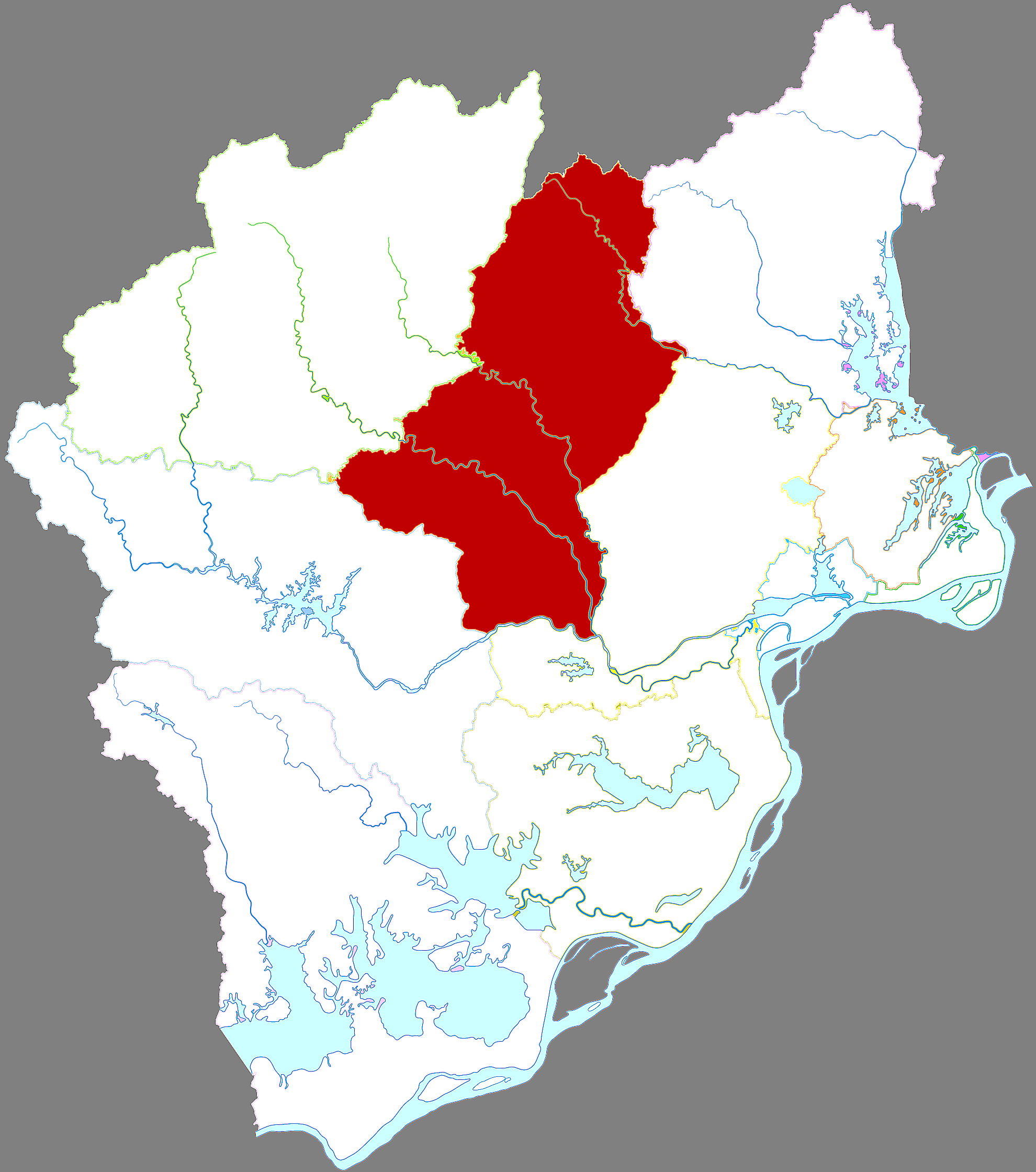 Location of Qianshan county in Anqing city, China